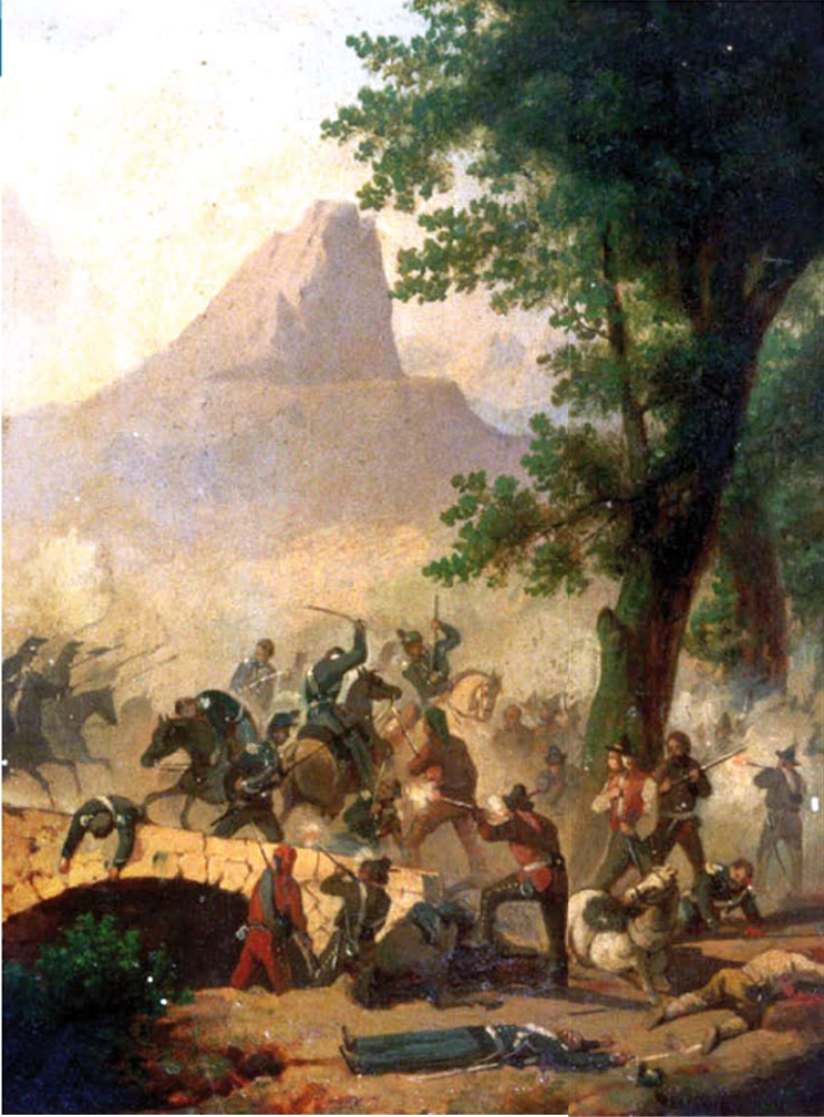 Anonimous oil paint on cartoon , date: '50s of century XIX, showing brigandage scenes (see pag 45 of la Conquista -supplement of Manifesto)